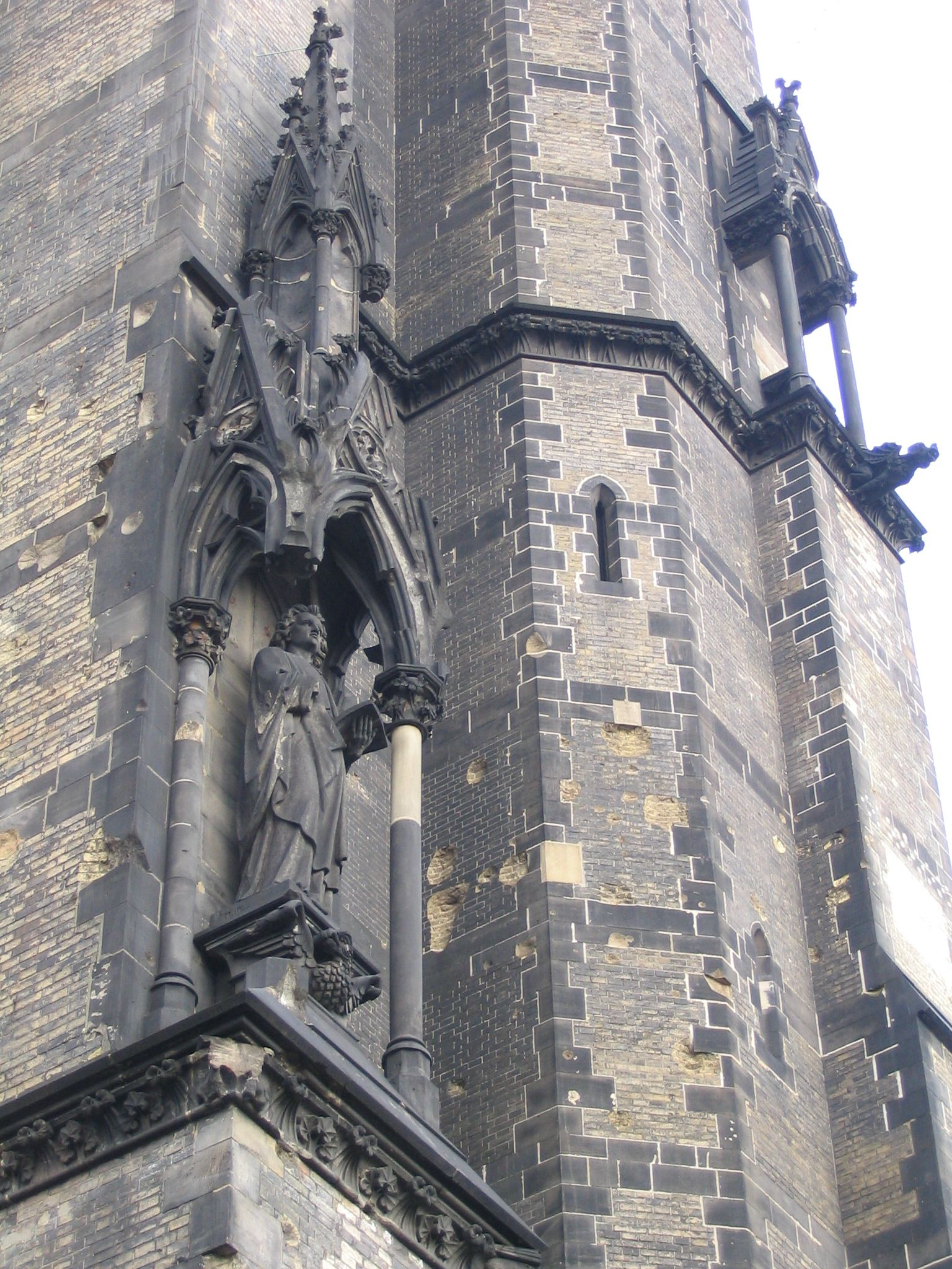 Damages from WW2 bombings at the St. Nikolai church